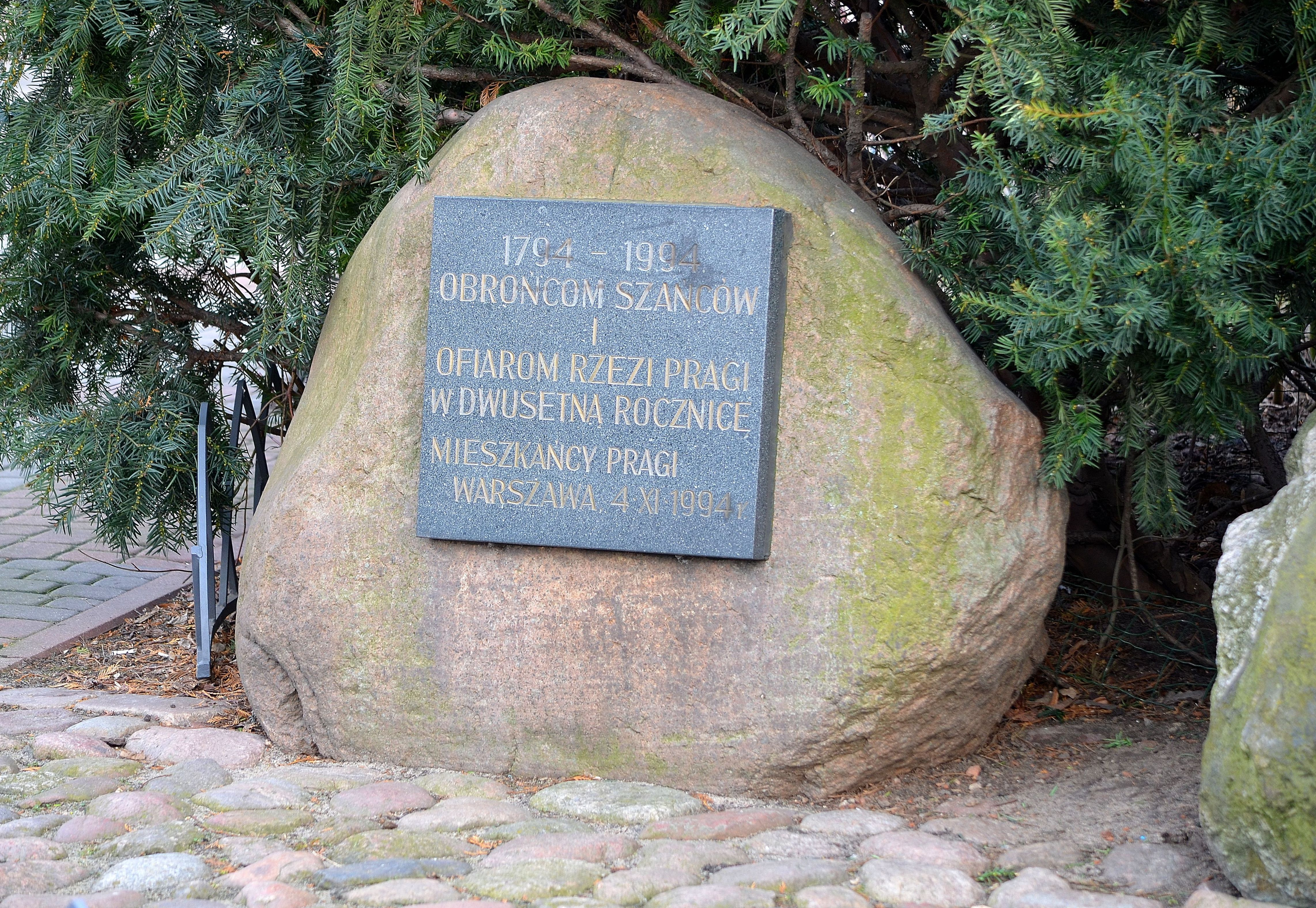 Stone commemorating the victims of the Massacre of Praga in front of Saints Michael Archangel and Florian Basilica in Warsaw